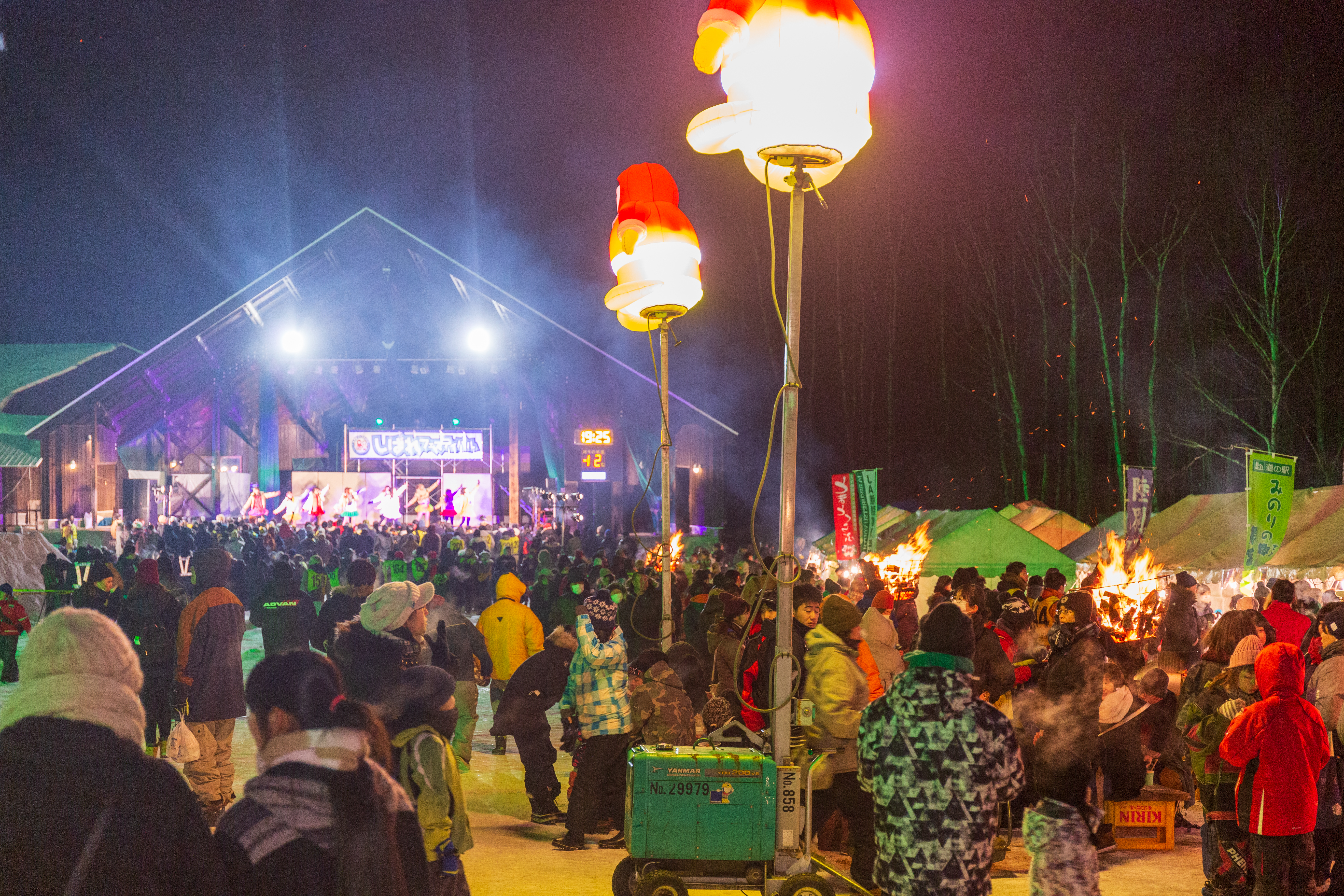 The 38th Shibare Festival